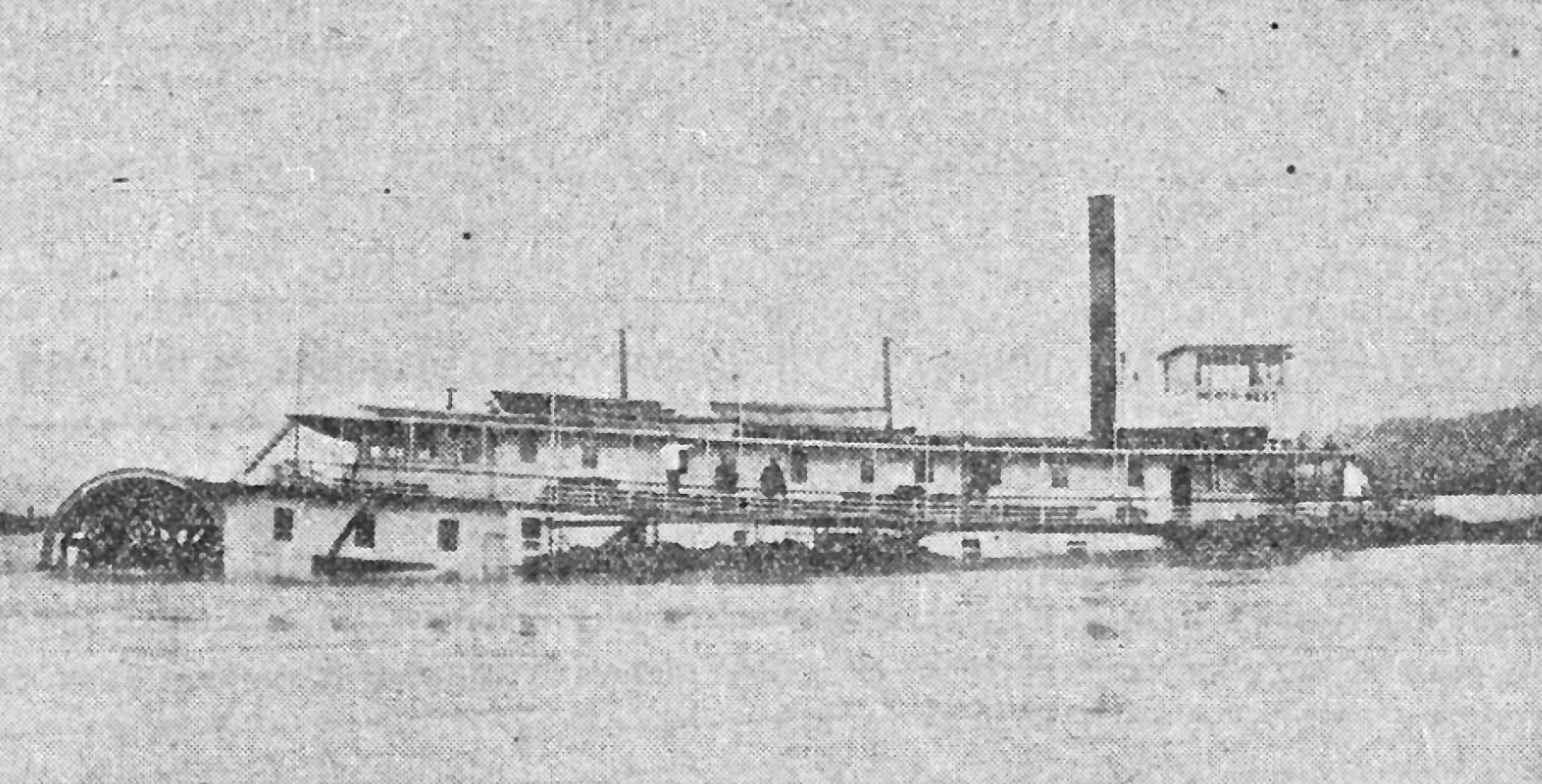 Steamer Northwestern sunk on the Cowlitz River about three miles upriver from Kalama.